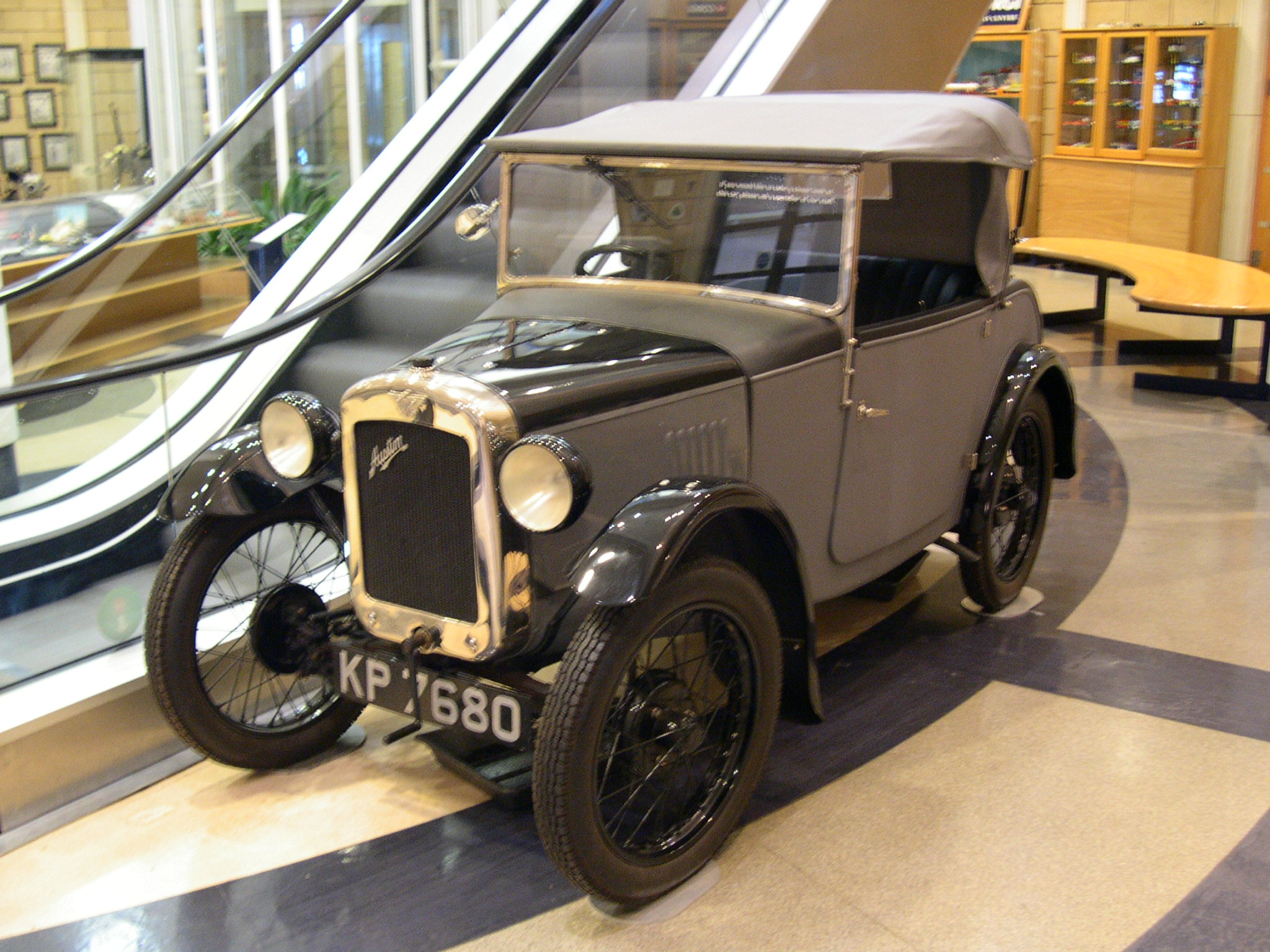 1928 Austin Seven Avon Sportsman's two seater 2006 - 2008 Heritage Motor Centre. Gaydon